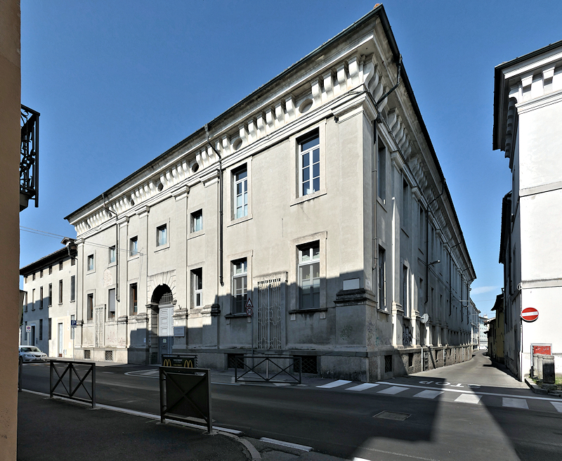 Old hospital in Crema (Italy)